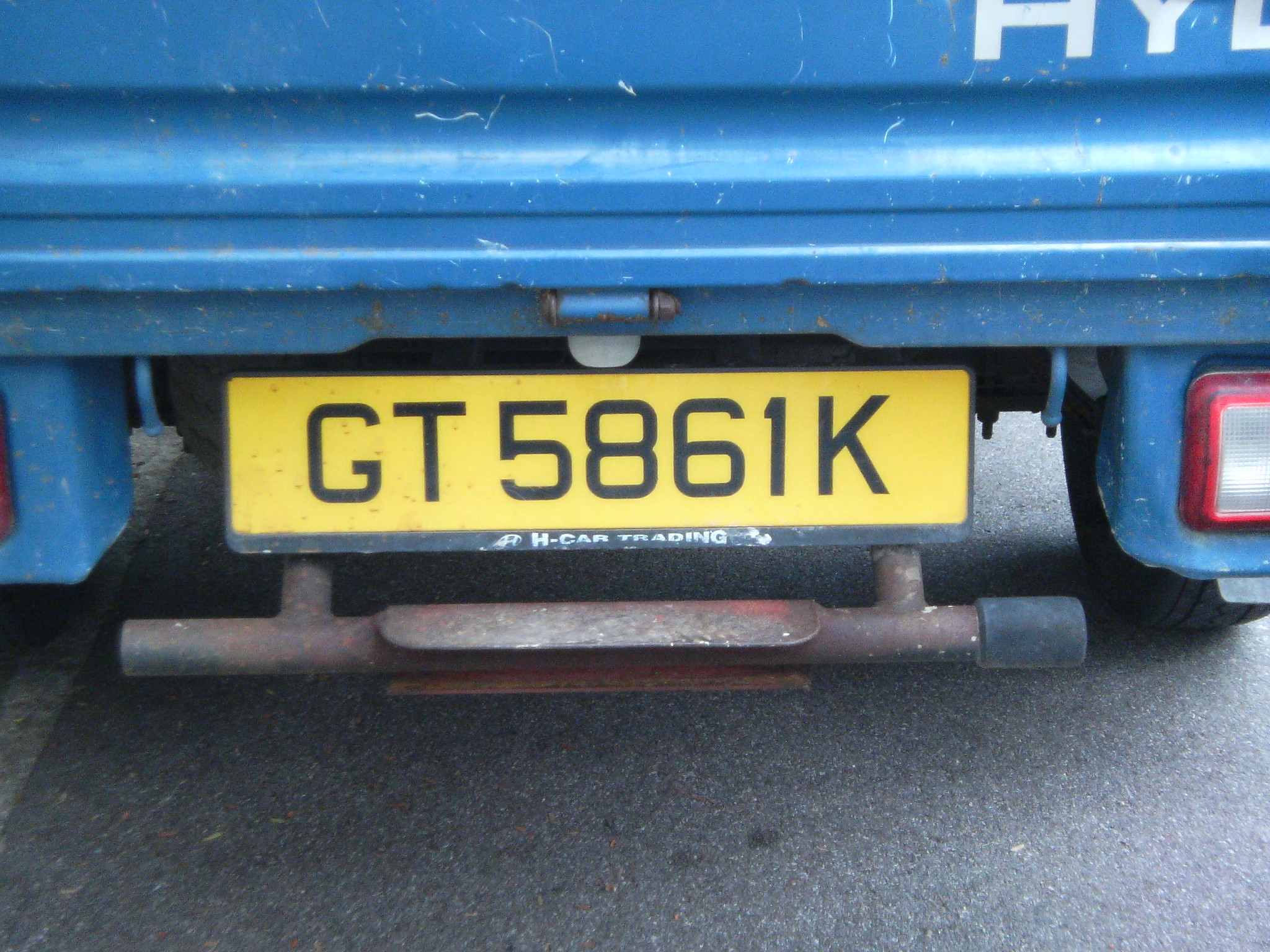 A Singapore black-on-yellow rear vehicle registration plate on a blue Hyundai vehicle.